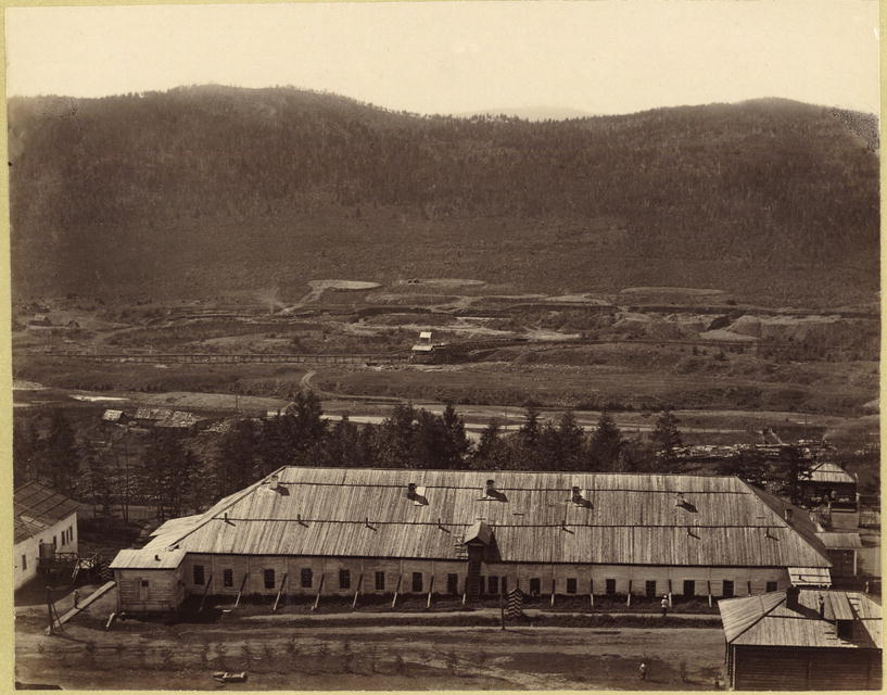 Hospital for katorga prisoners in Nizhniaya Kara. Foto by Alex Kuznetsov (1845-1928)